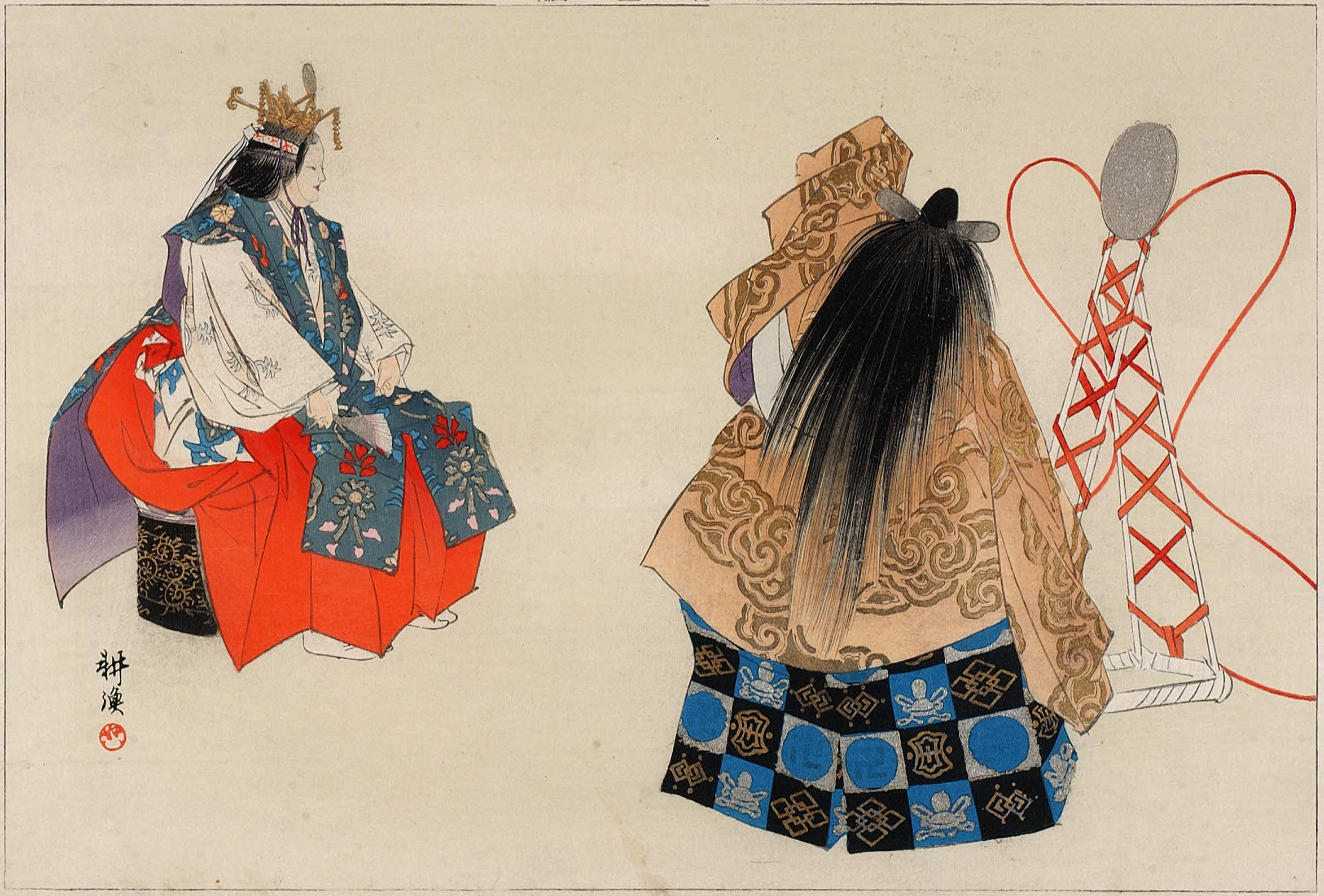 Scne from Nô drama "Shôkun"